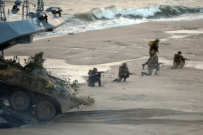 The final stage of the Zapad-2013 Russian-Belarusian strategic military exercises.